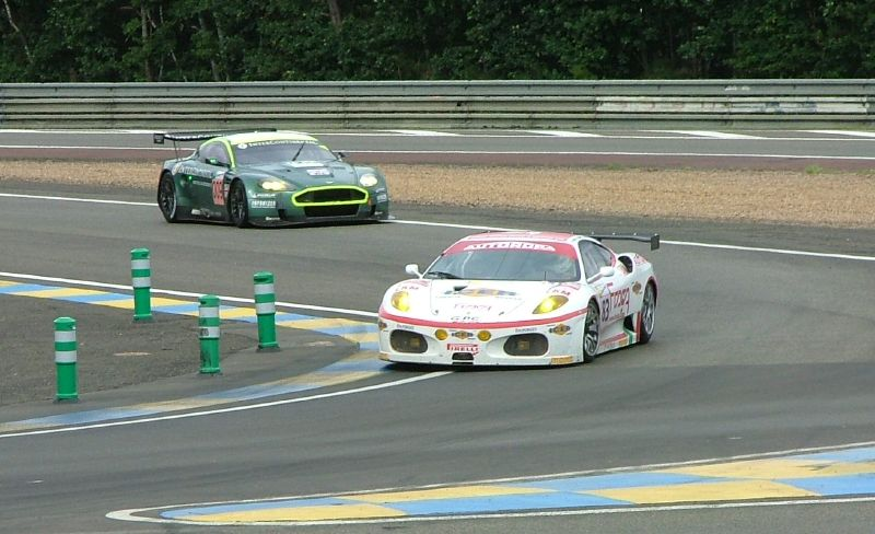 G.P.C. Sport's Ferrari F430 GT2 and Aston Martin Racing's Aston Martin DBR9 at the 2007 24 Hours of Le Mans